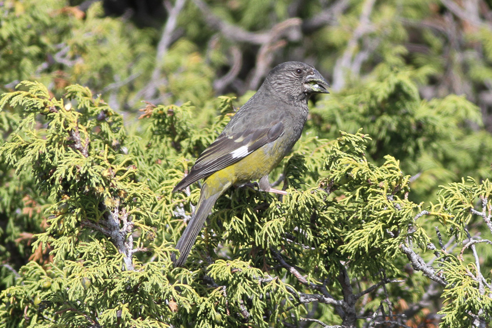 White-winged Grosbeak Mycerobas carnipes, adult female. Tien Shan Observatory, Almaty.